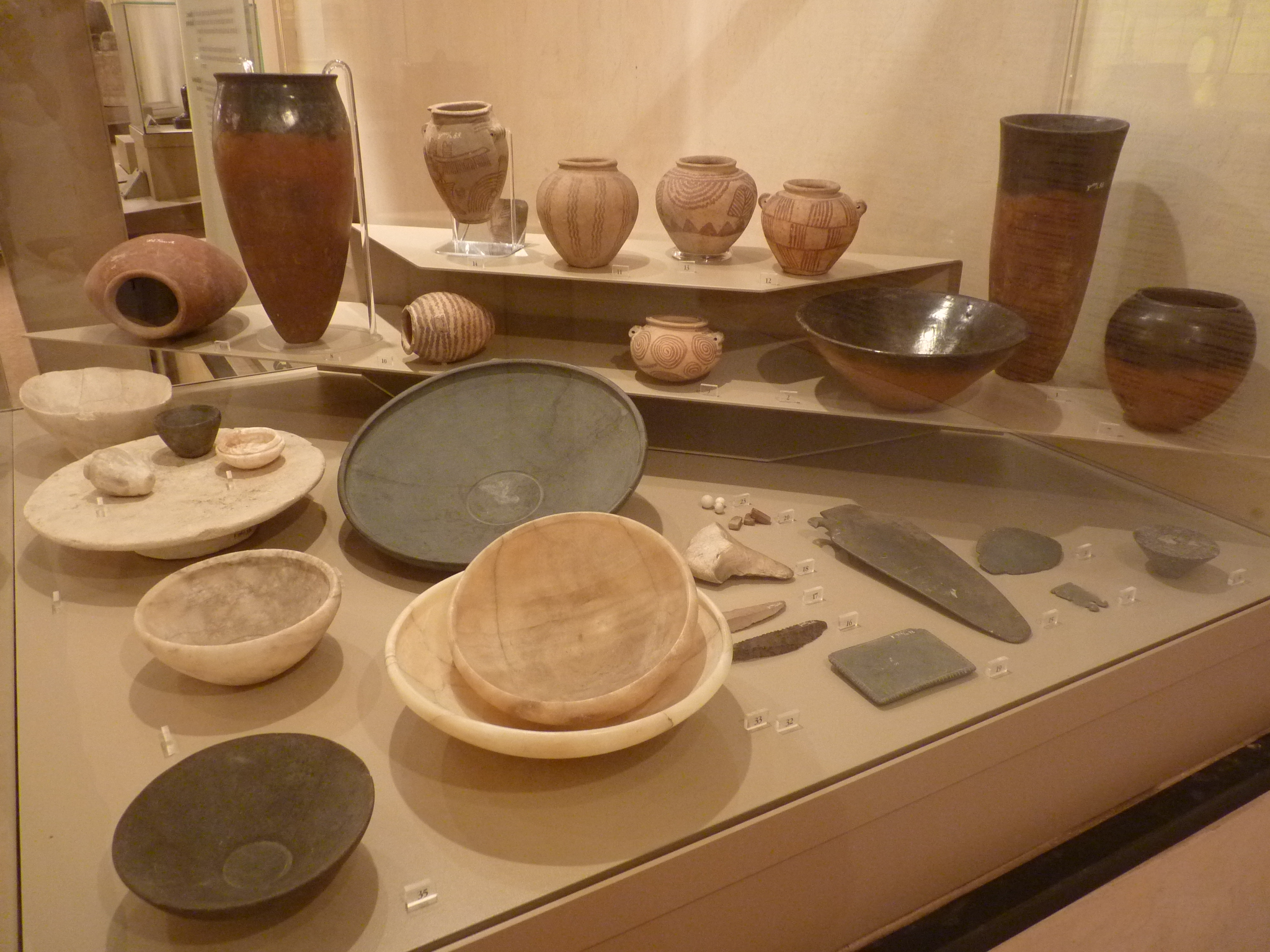 Various pottery and objects. Various provenience and epochs (from Naqada I to the 1st dynasty; circa 3900-2900 BCE). Archeological museum of Bologna (Italy), on loan from Rijksmuseum van Oudheden, Leiden.